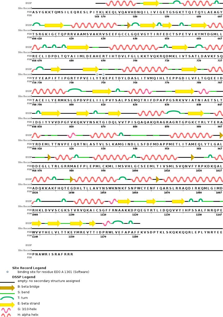 Aminoacids sequence of DHX8 and its secondary structure